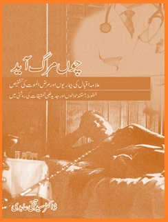 This is title page of Urdu Language book "Choon Marg Ayed" compiled by Dr. Taqi Abedi a biographic research on Muhammad Iqbal, published by Iqbal Academy Pakistan a Public owned institution of Pakistan